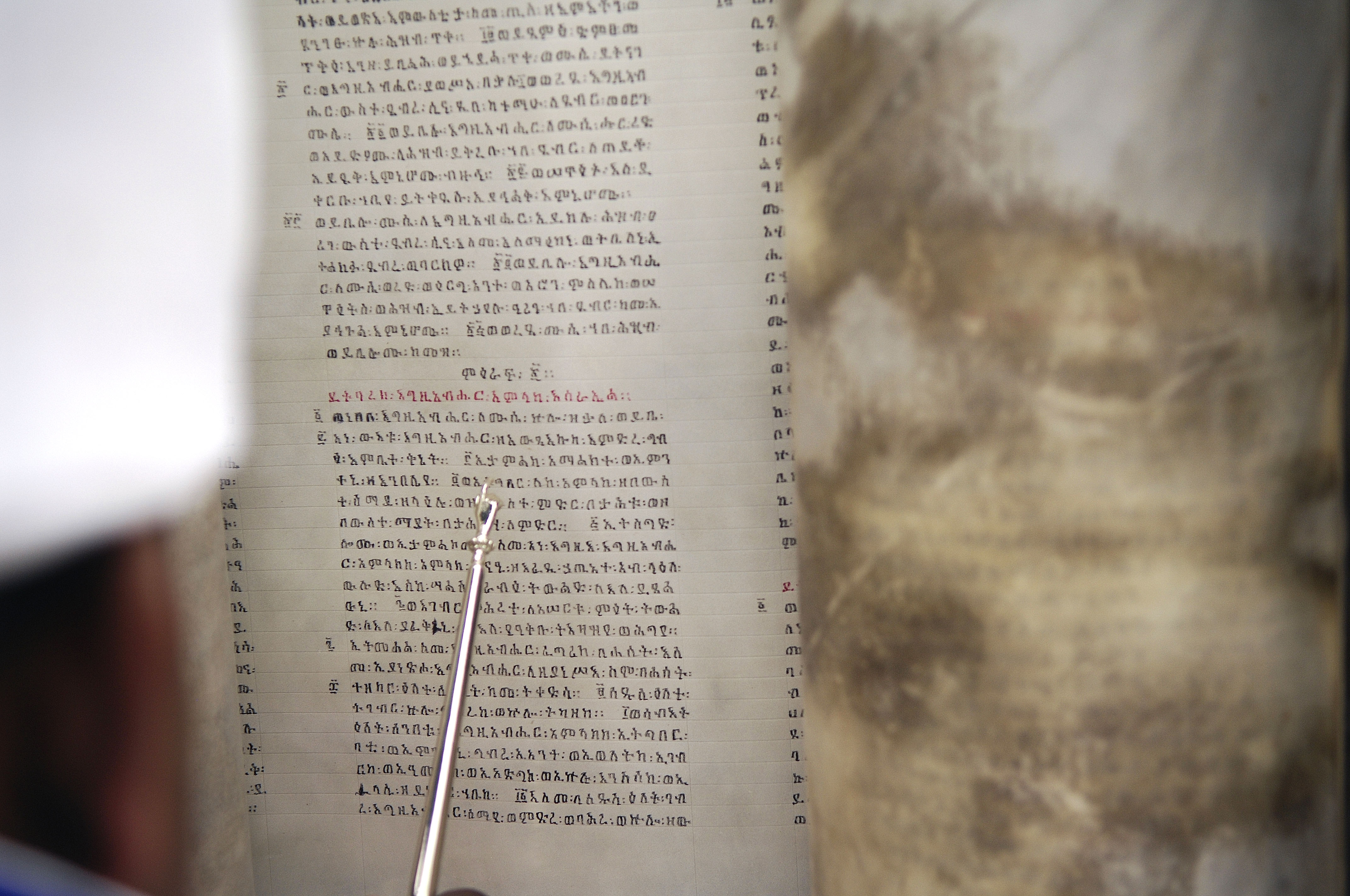 kes reading from the orit on sigd holiday